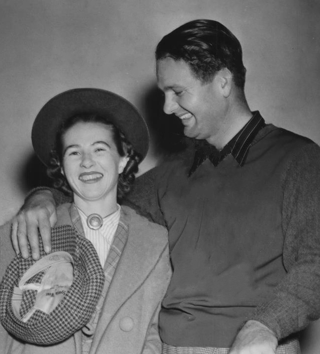 1940 Press Photo Jimmy Demaret and his wife Idella. - mjx65439